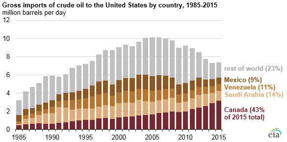 US_oil_imports_by_country